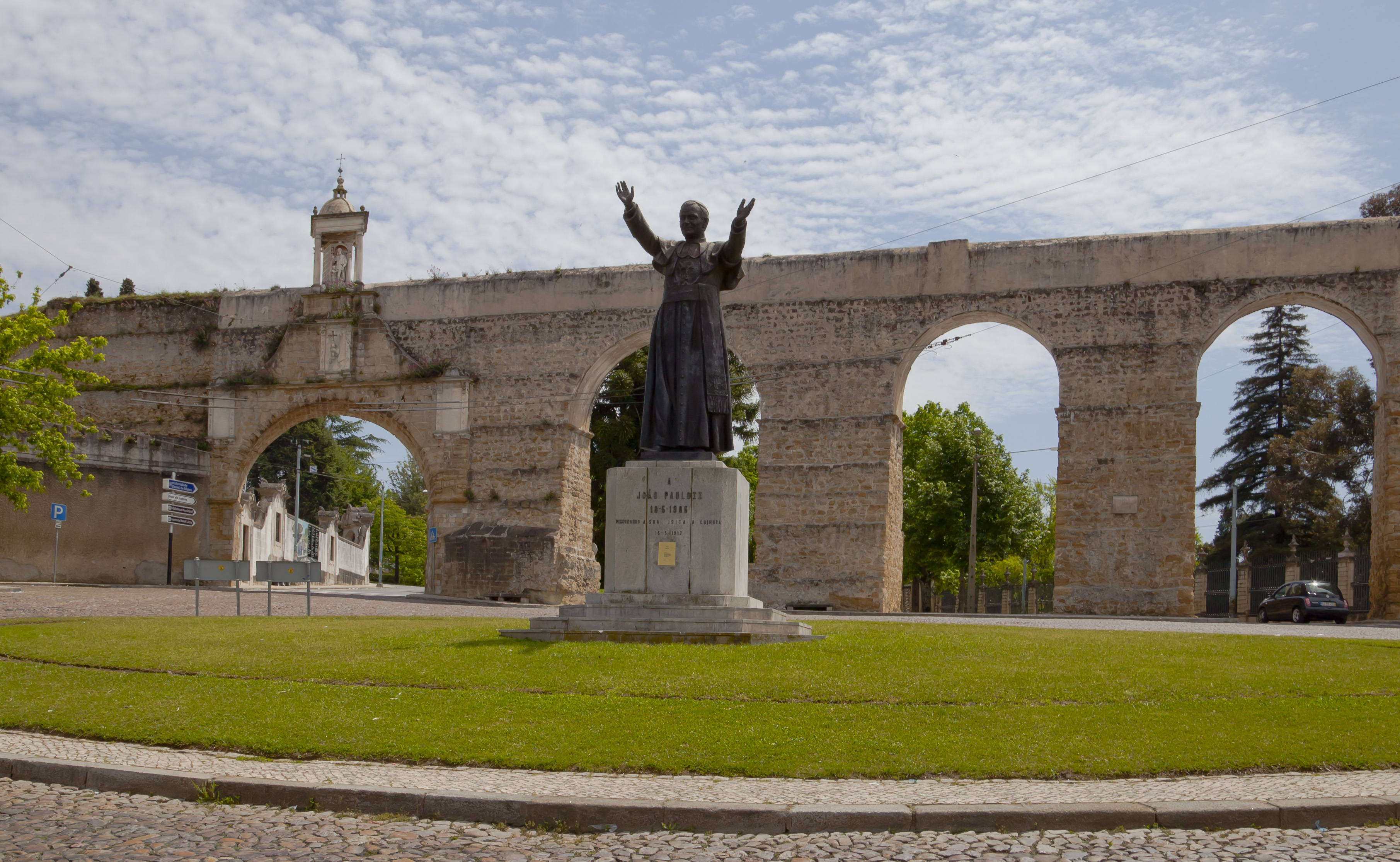 Statue of Ioannes Paulus II and Aqueduct of San Sebastian, Coimbra, Portugal